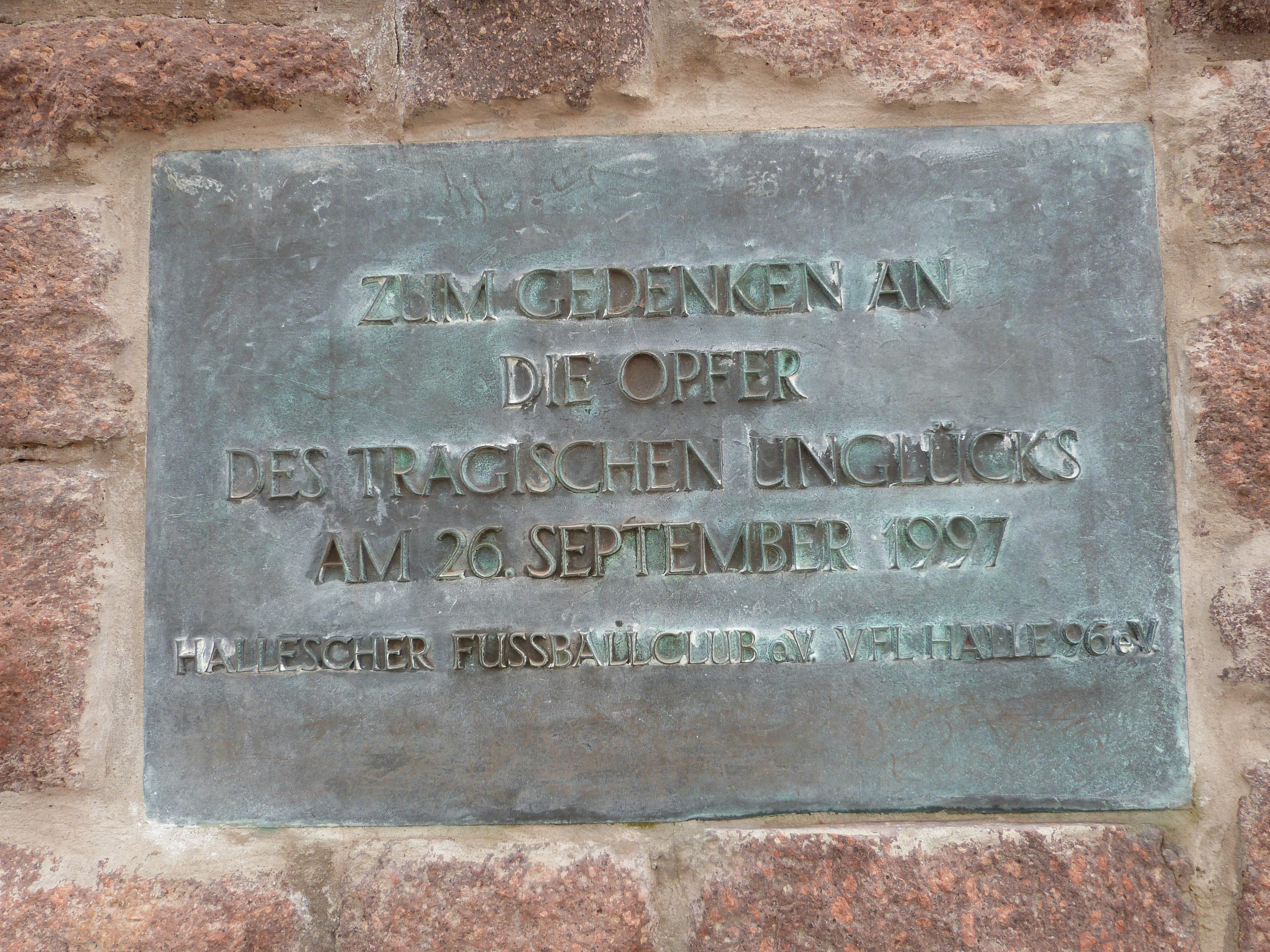 Stadium Erdgas Sportpark, memorial plaque for the parachute accident in 1997 at the stadium wall, Kantstrasse, Halle (Saale)